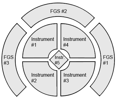 Fields of view for Hubble's instruments. , page 20